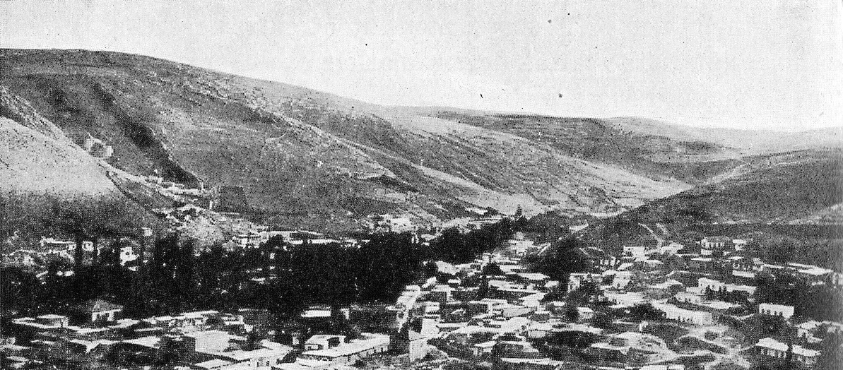 Photo of Amman March 1918.